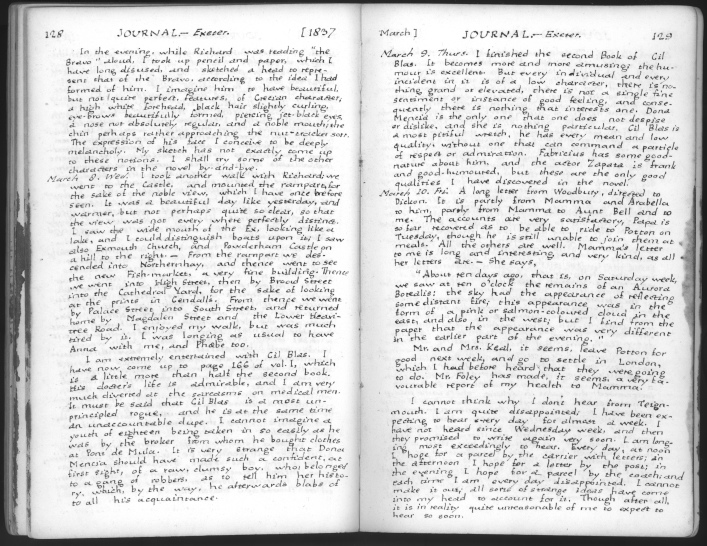 Mareget EMILY Shore 1819-1820 her journal - a sample